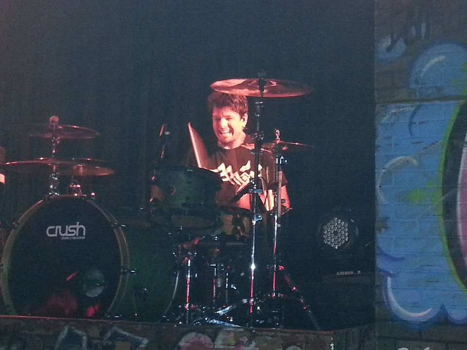 Dan Johnson performing with R3D